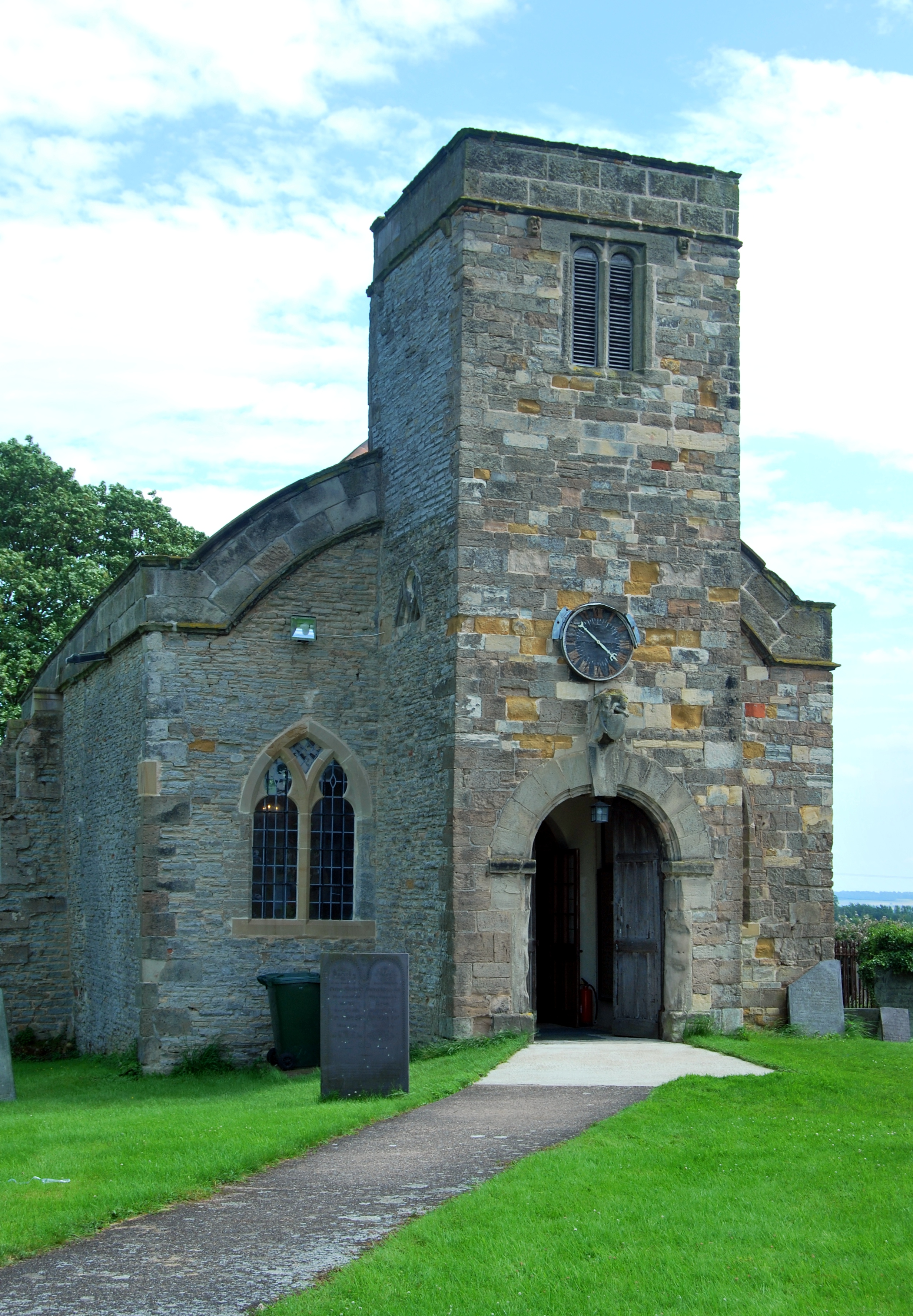 The ancient church of St Margaret, Owthorpe.